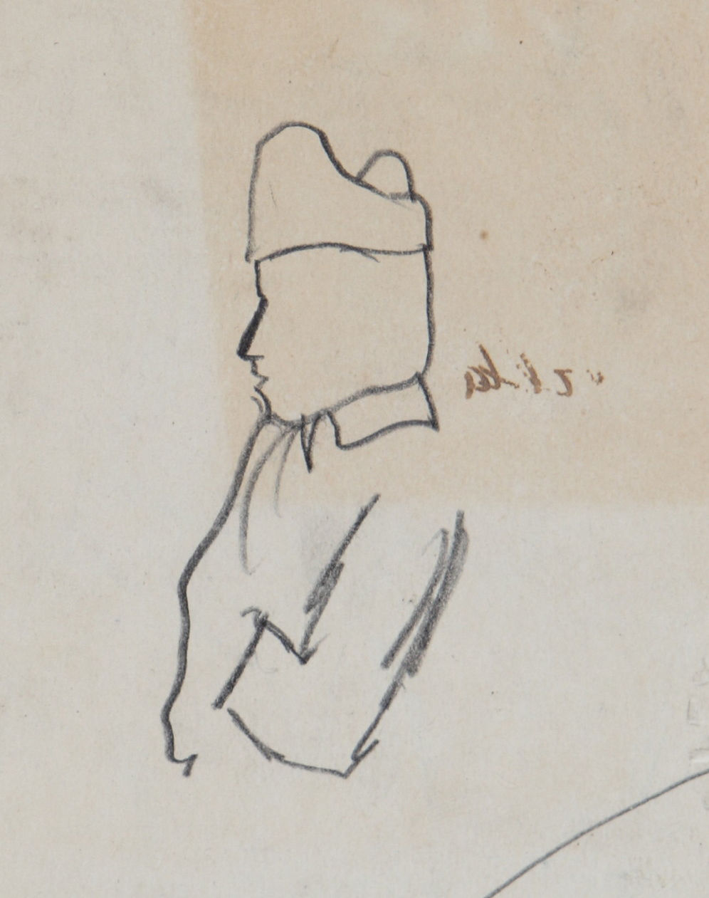 Profile of Napoleon, drawn at age 9 in geography book. Graphite, 8.2" x 5.5".